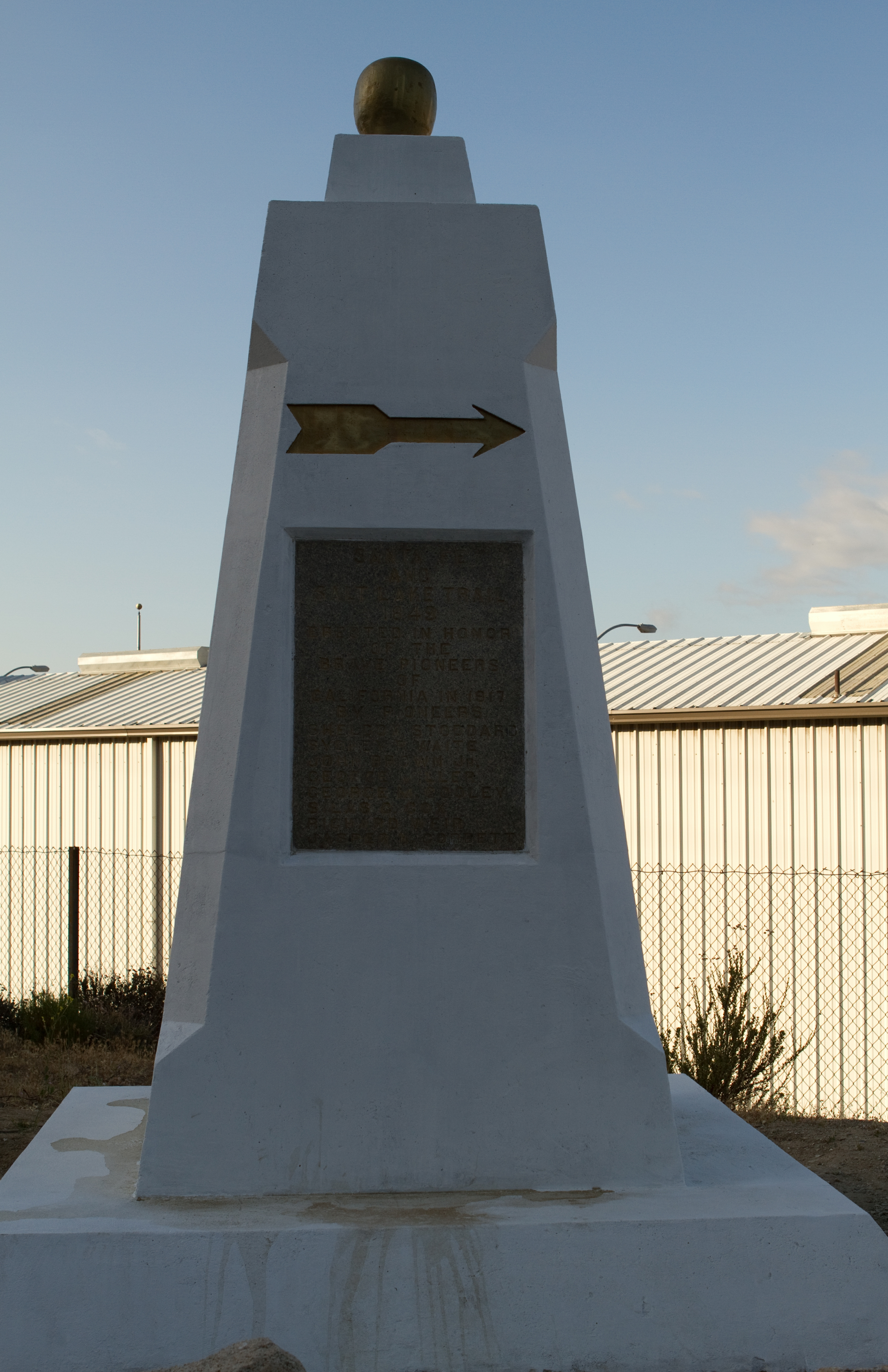 Santa Fe And Salt Lake Trail Monument